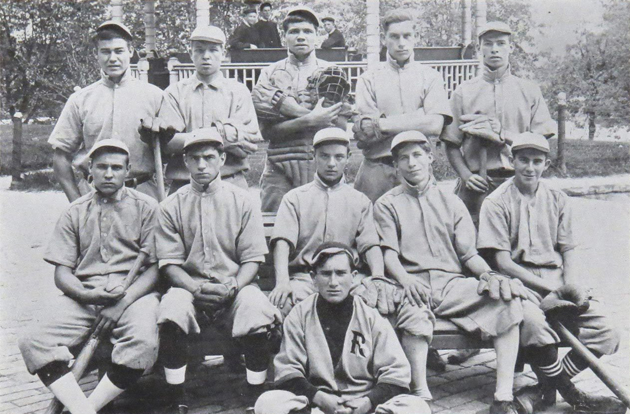 Babe Ruth (top row, center) at St. Mary's Industrial School for Boys, Maryland - 1913